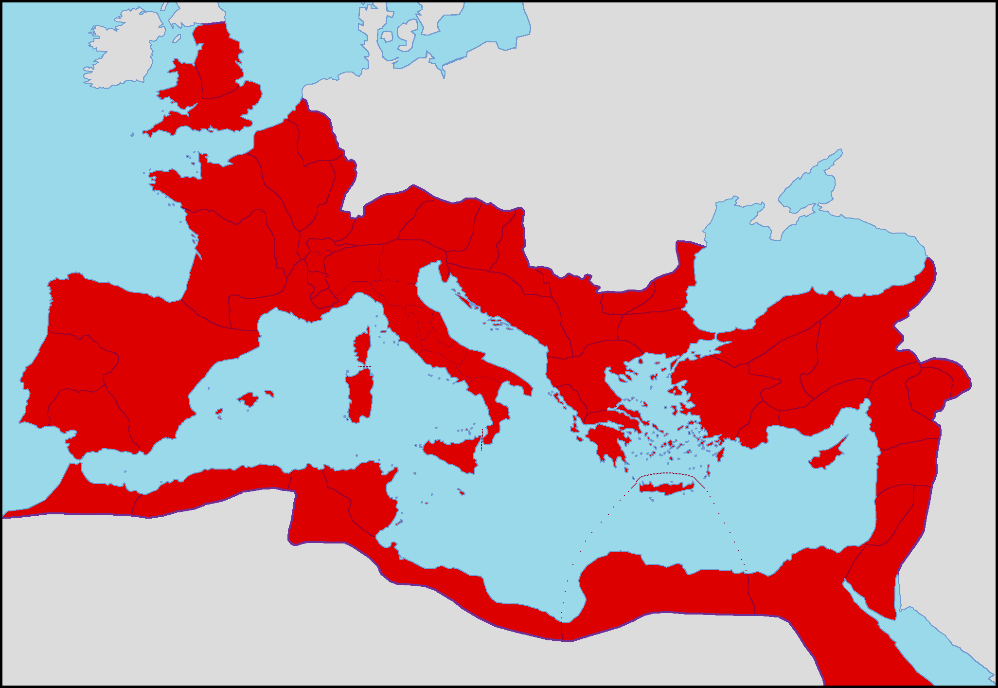 Map of the Roman Empire in 280 AD